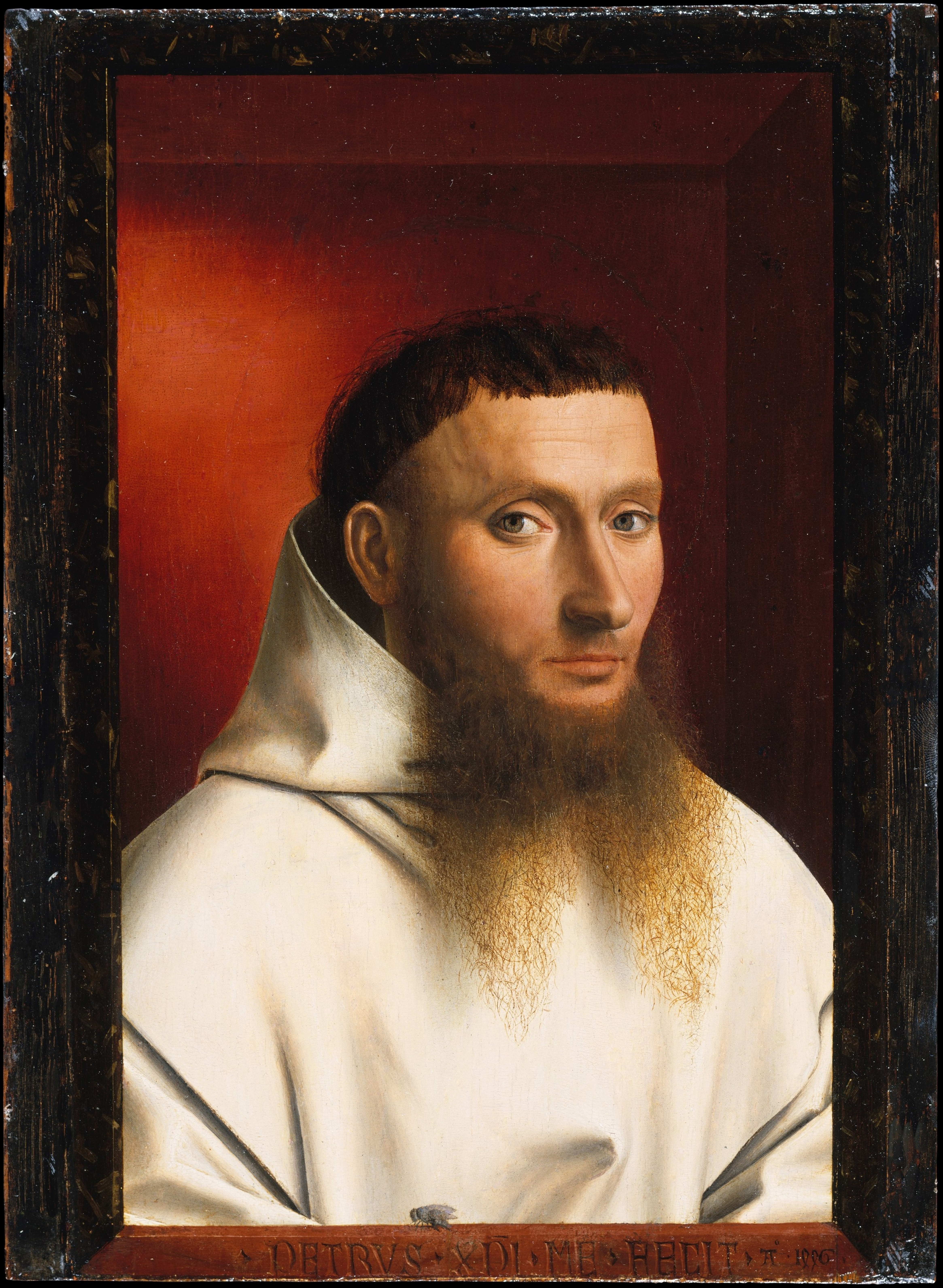 Portrait of a Carthusian (1446), oil on wood by Petrus Christus. Held at the Metropolitan Museum of Art, New York.